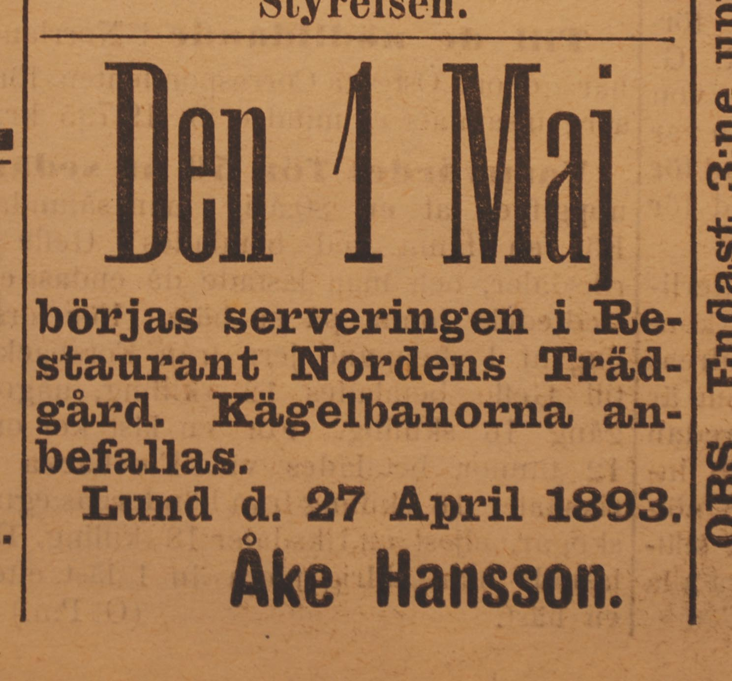 Advertisement for Åke Hans, well known restaurant in Lund, Sweden.